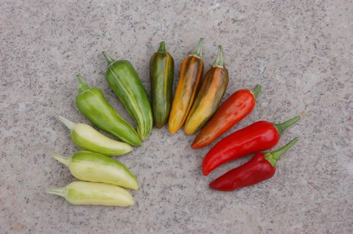 The fish pepper is an heirloom variety known prior to 1875; it was grown in the gardens of African slaves